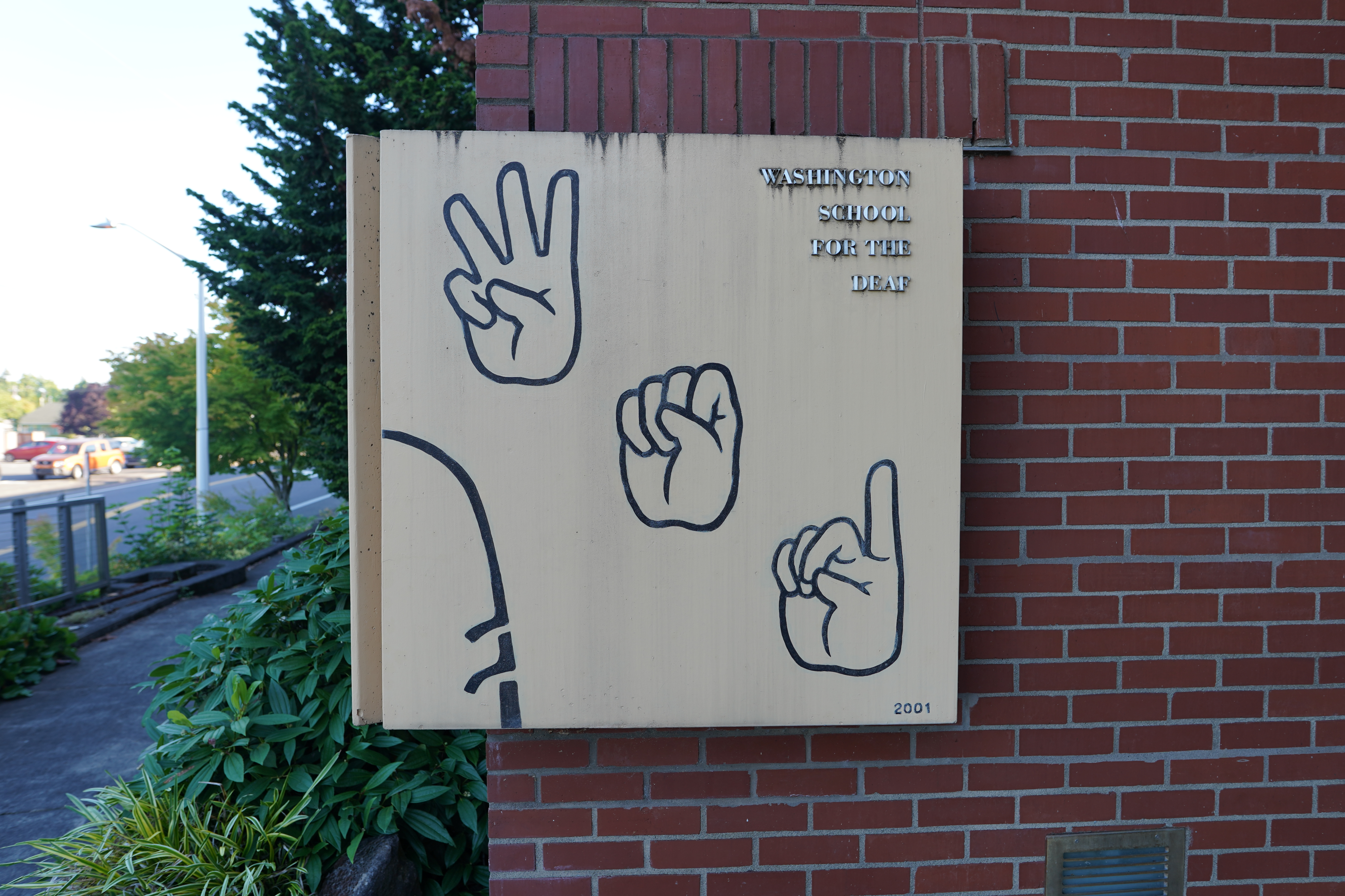 A mural near the main entrance of Clarke Hall of the Washington School for the Deaf in Vancouver, Washington. The three hand symbols encode the American Sign Language symbols for the letters "WSD". Photograph taken on 2020-07-19T14:46Z.